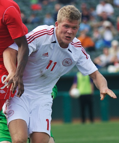 Canadian forward Tosaint Ricketts drops back to help on a corner and rises above Andreas Cornelius to head the ball to safety.